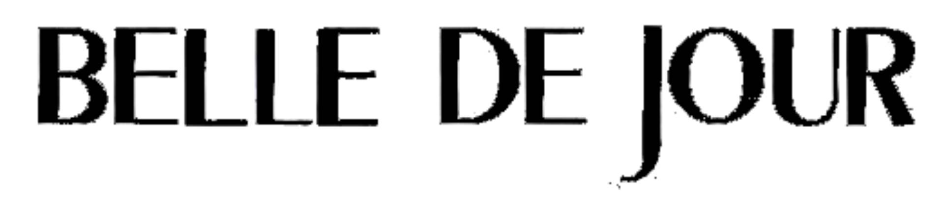 "Belle de jour" movie black horizontal logo.